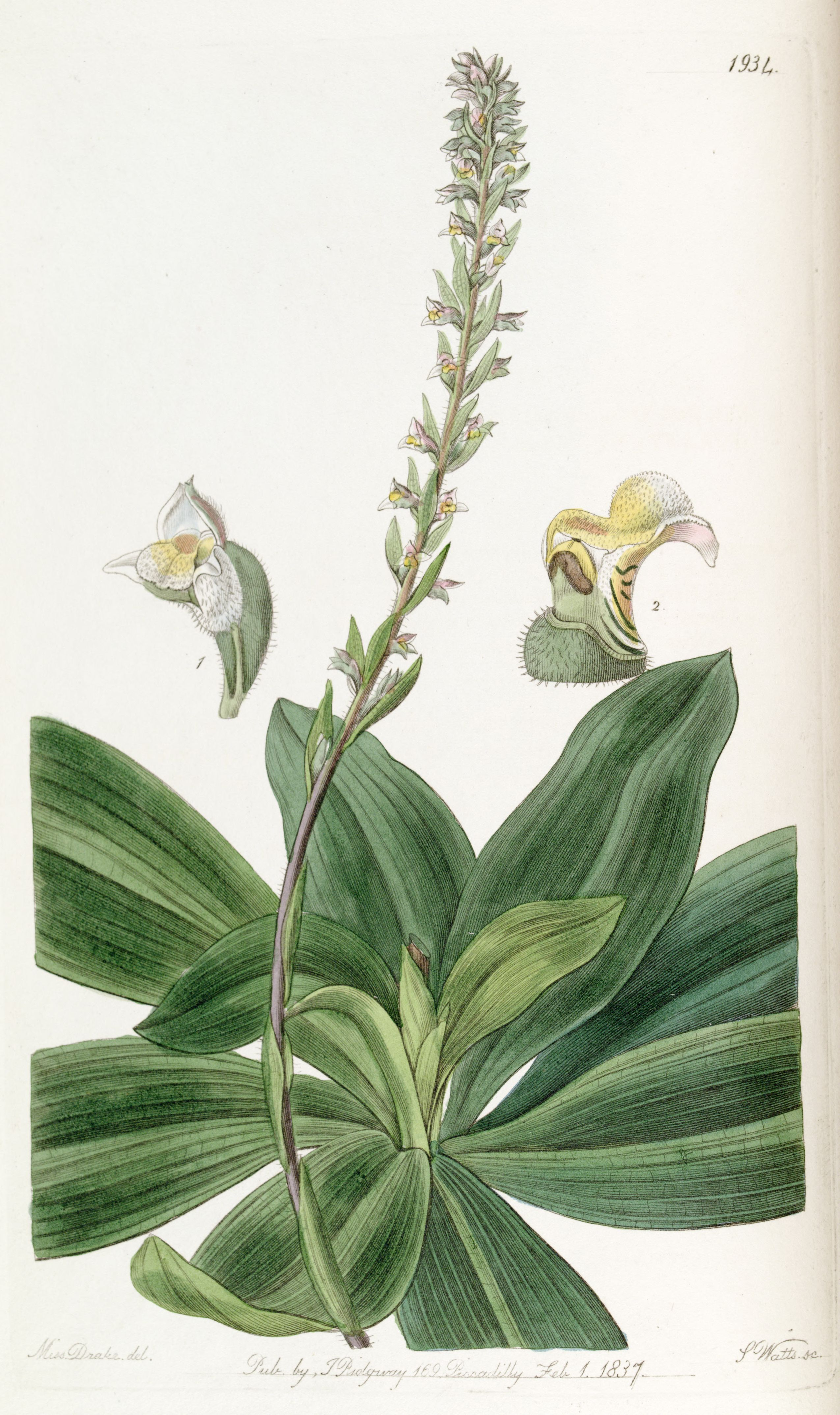 Brachystele bracteosa (as syn. Spiranthes bracteosa)